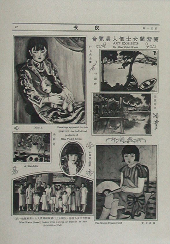 Exhibition of Guan Zilan artwork (under name of Violet Kwan) in The Young Companion magazine (also known as Liangyou pictorial), issue 57, in 1930.